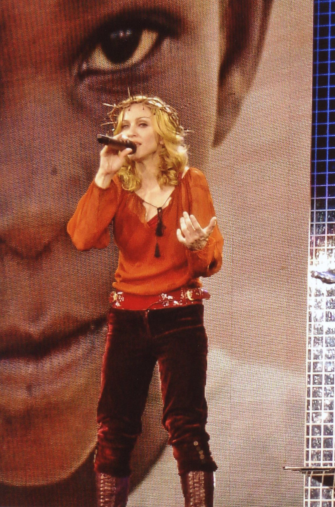 Madonna performing "Live to Tell" during her concert at the Wembley Arena in London, as part of her Confessions Tour on August 12, 2006.